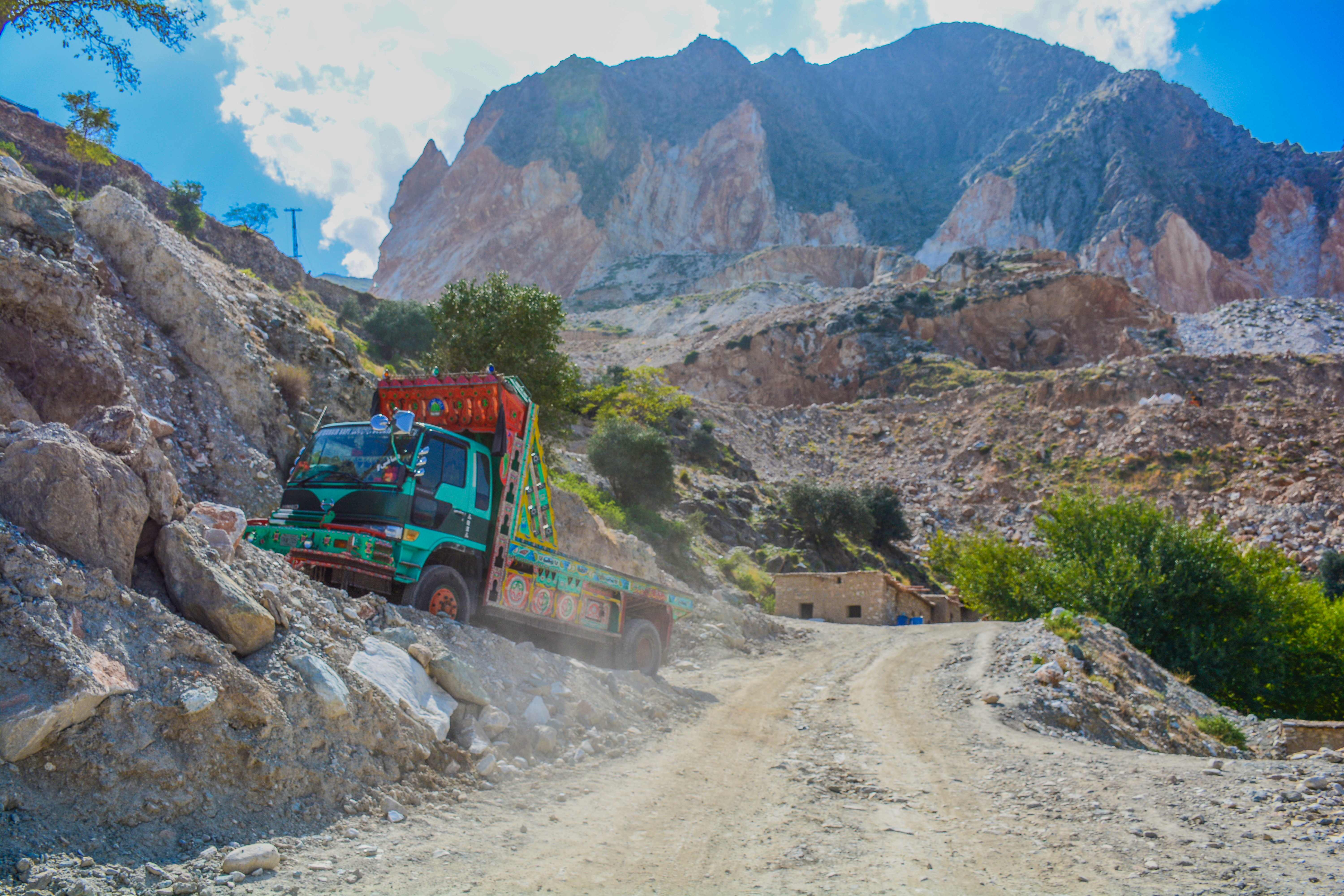 Mining Site at Ziarat Marble Mine at Baizai Sub-Division Mohmand Agency FATA KPK